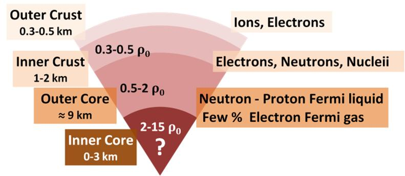 Section of neutron star showing composition and density; Patterned after Paweł Haensel, A Y Potekhin, Aleksandr Ûrevič Potehin, D G Yakovlev (2007) Neutron Stars, Springer, p. p. 12 ISBN: 0387335439.